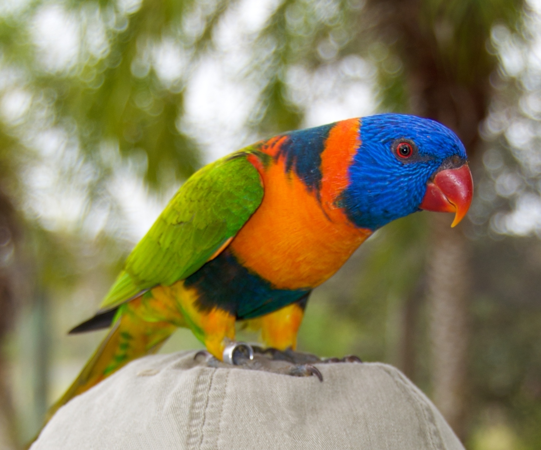 Red-collared Lorikeet standing on a man's cap at Lion Country Safari, Florida, USA.